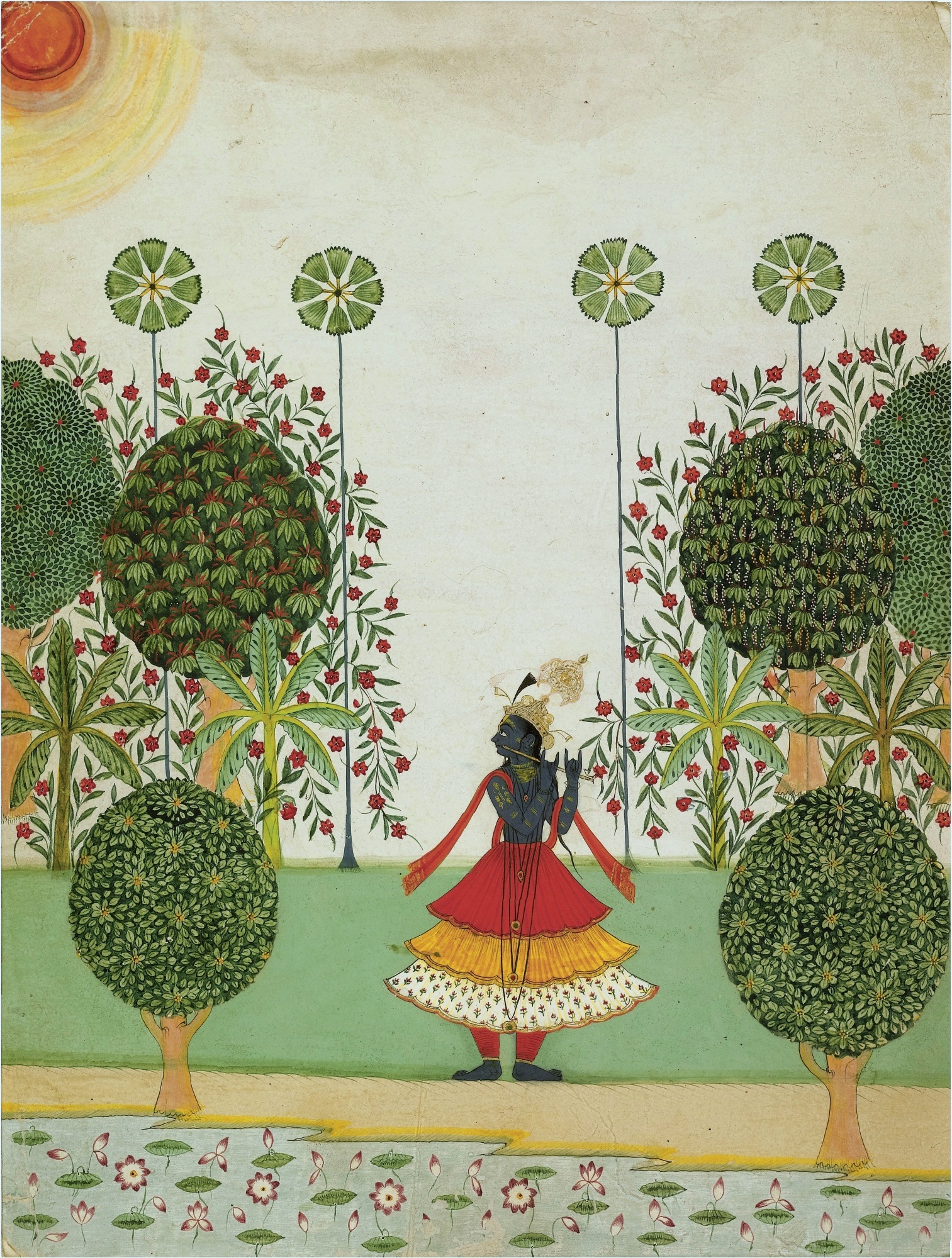 Krishna Fluting in the Forest, c. 1720-1740 Jaipur, Harvard University Art Museum